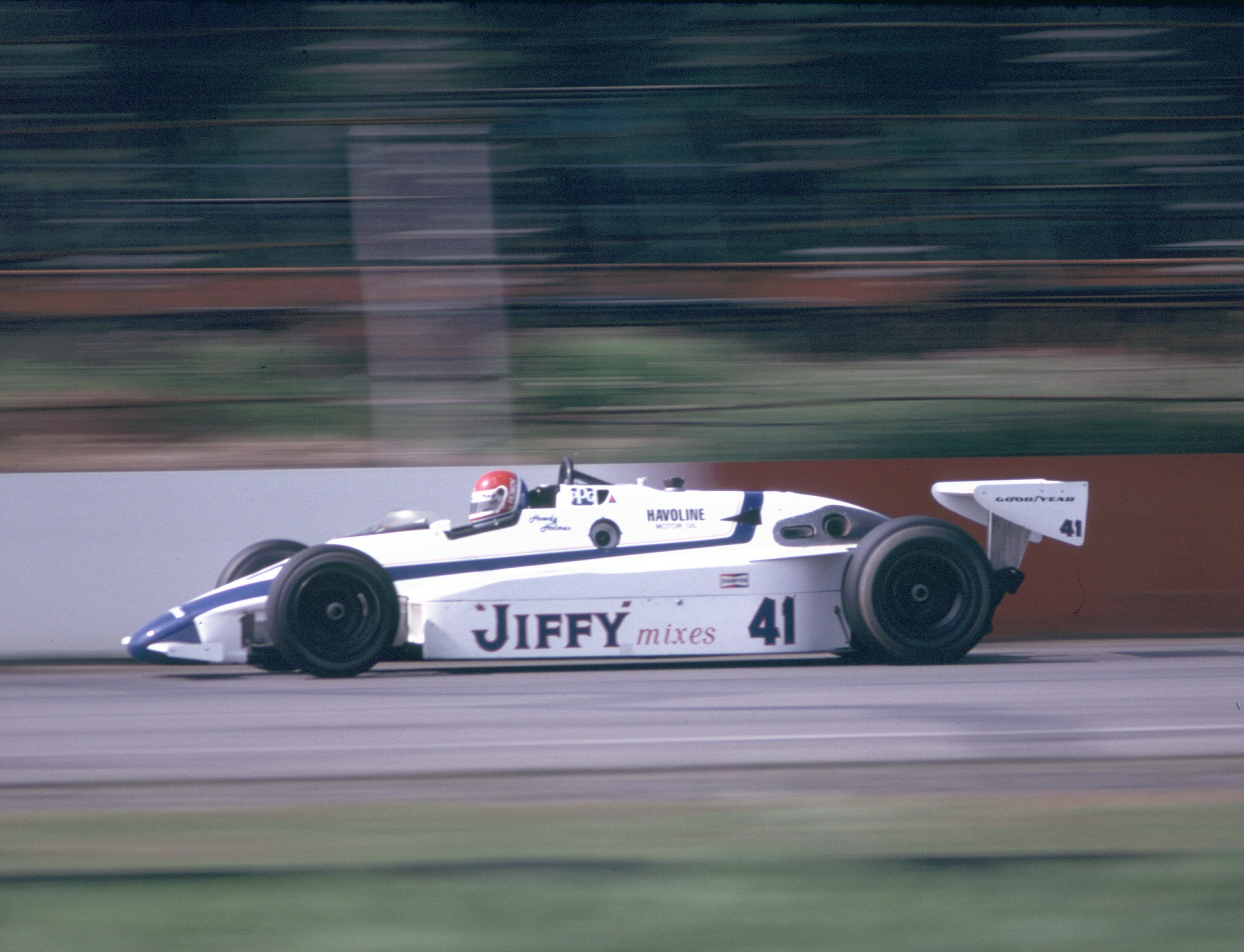 Indycar driver Howdy Holmes racing in the #41 Jiffy car in 1984 at Pocono Raceway. Photo By Ted Van Pelt